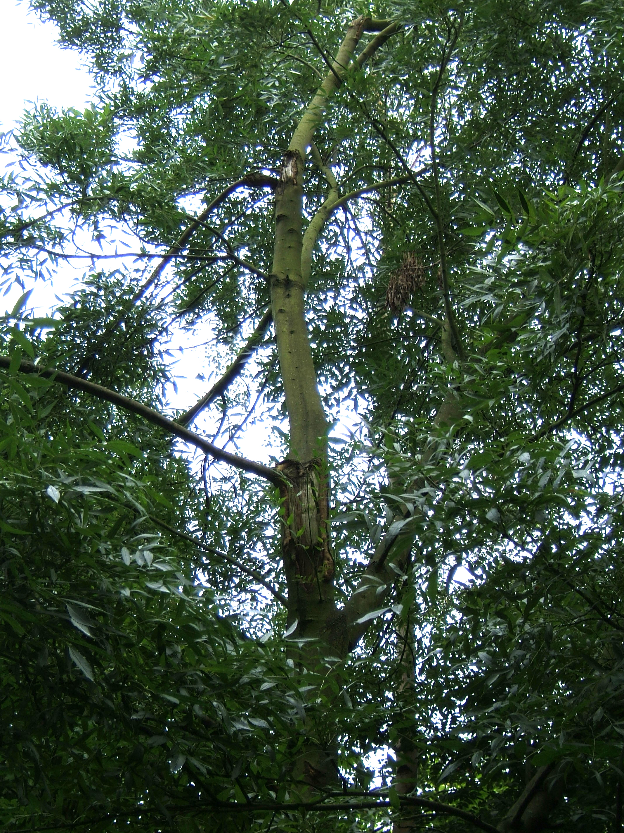 Fraxinus angustifolia 'Raywood' trunk, showing broken branches (a common failing of this cultivar). Planted tree, Northumberland, UK; 20 August 2006